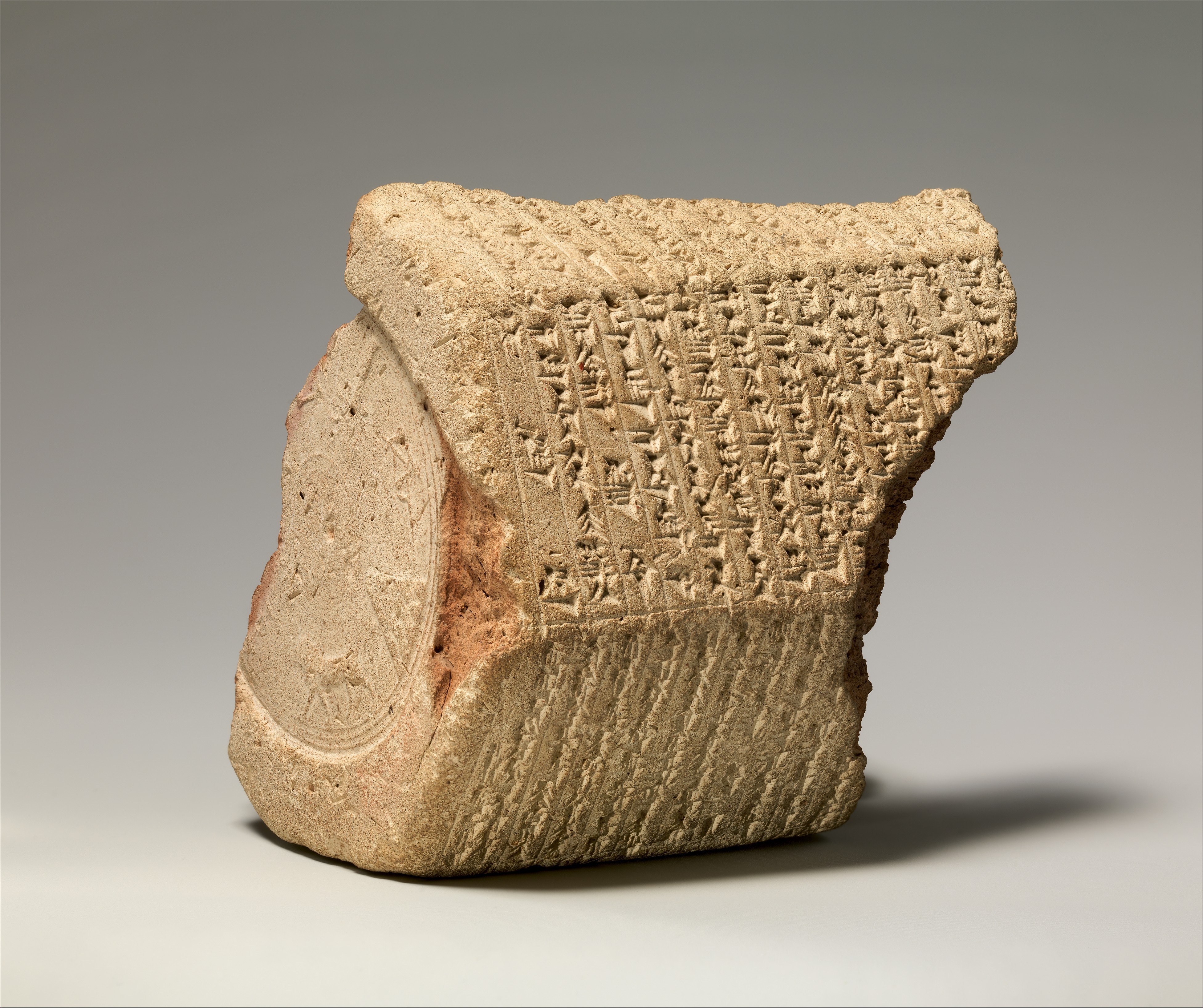 Assyrian; Cuneiform prism; Clay-Tablets-Inscribed-Seal Impressions